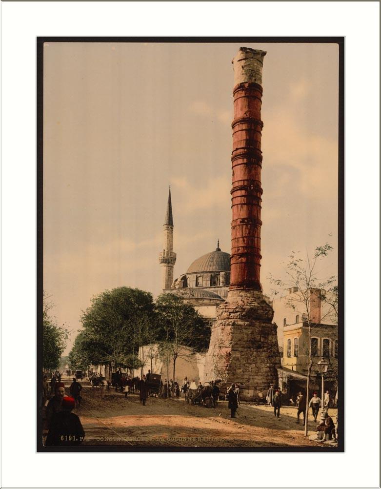 The burnt column Constantinople Turkey